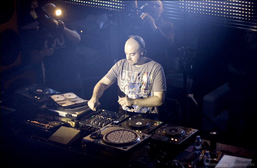 John O'Callaghan performing in Moscow